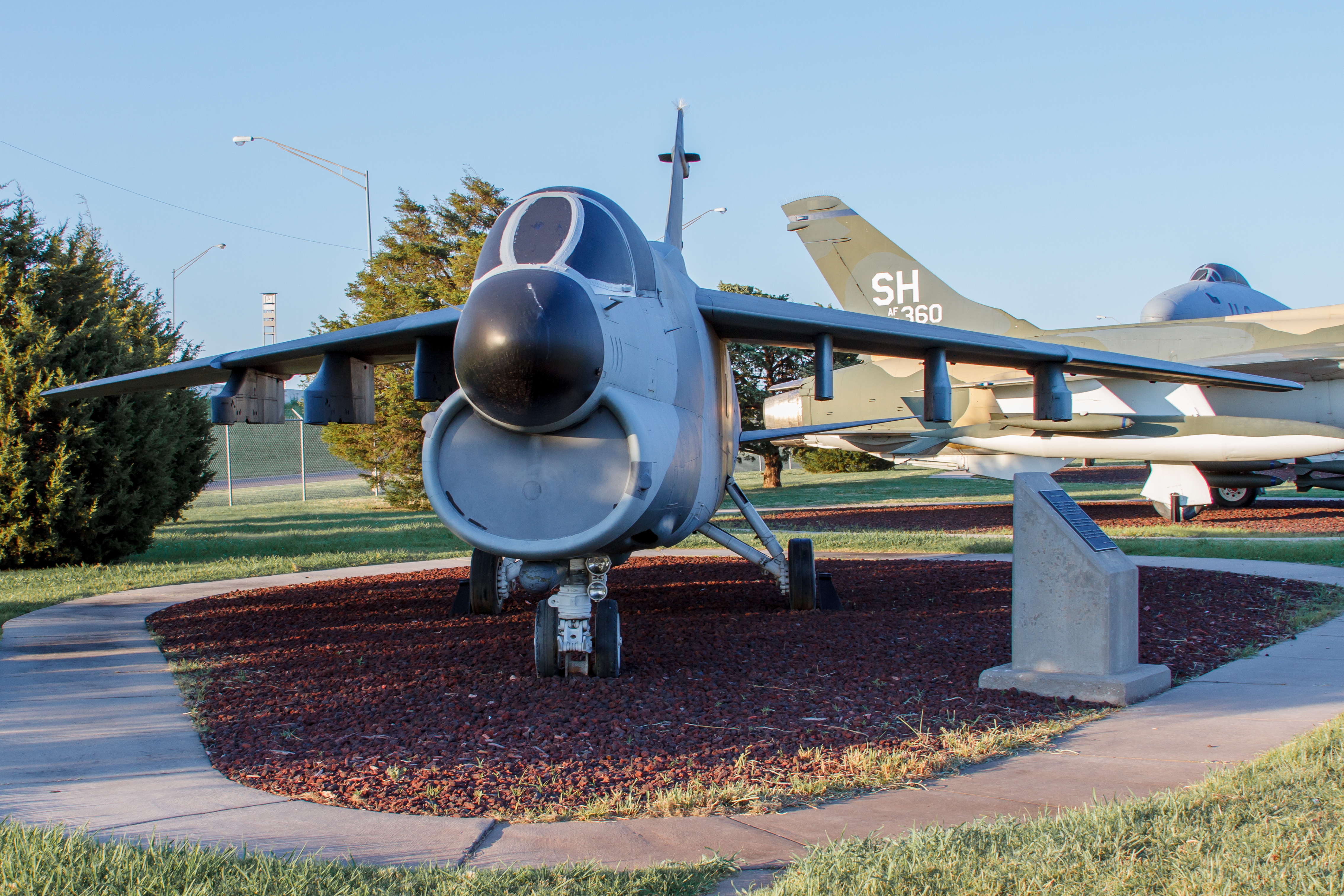 An A-7 Corsair on display at Tinker Air Force Base in Oklahoma City, Oklahoma.